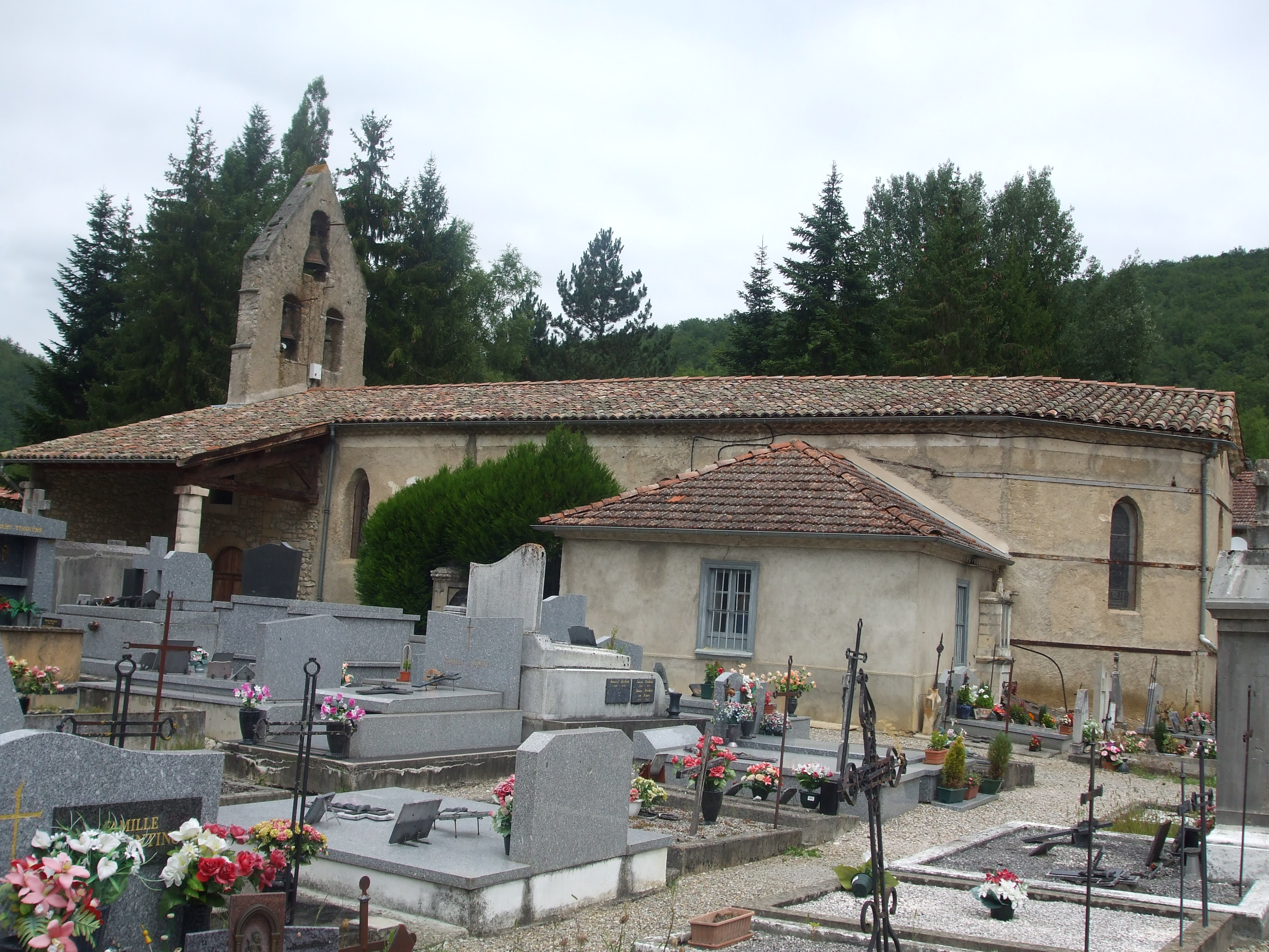 The church of L'Aiguillon, in Ariège (France).